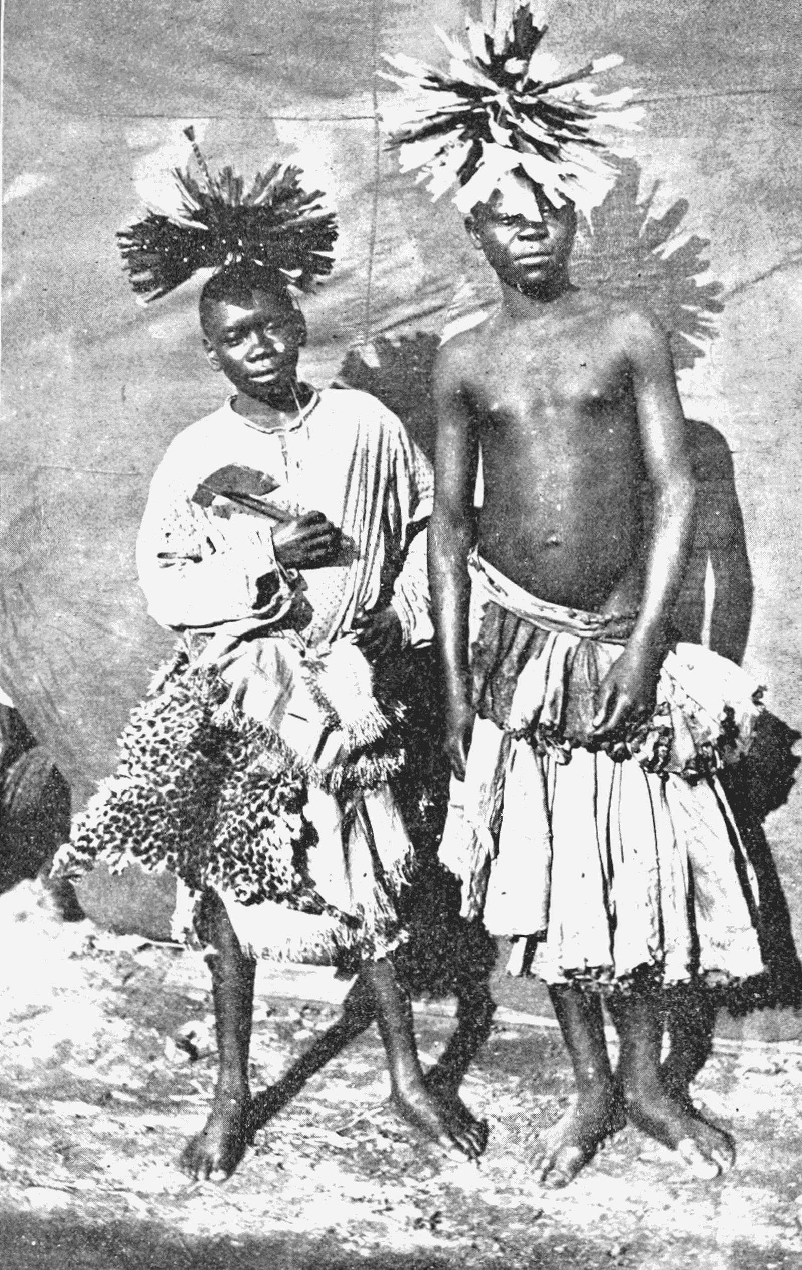 Height differences of a Batwa pygmy and a Bakuba youth